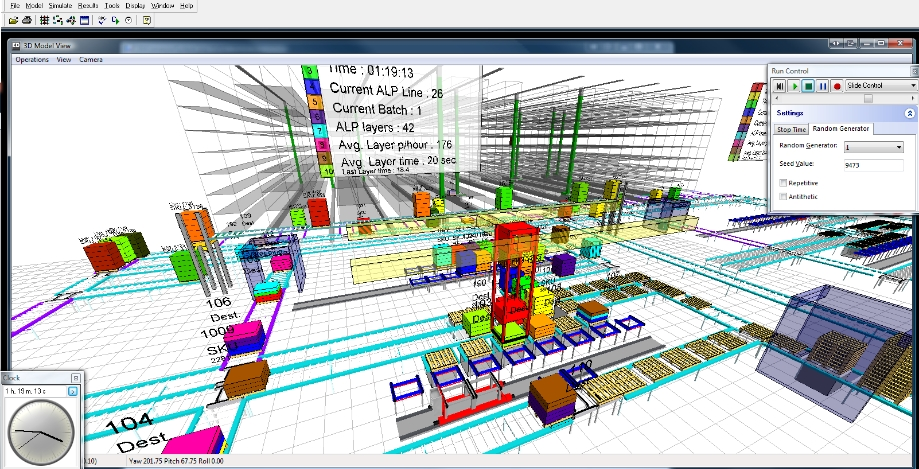 Enterprise Dynamics Screenshot